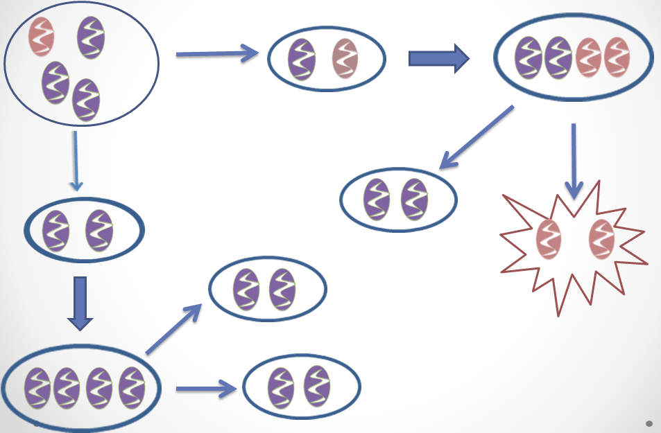 This figure depicts how a mitochondron with a genetic mutation in a heteroplasmic cell (top left), can lead to daughter cells that are homoplasmic for normal mitochonria and mutant mitochondria. This also shows how mitochondrial mutations can get worse over time.